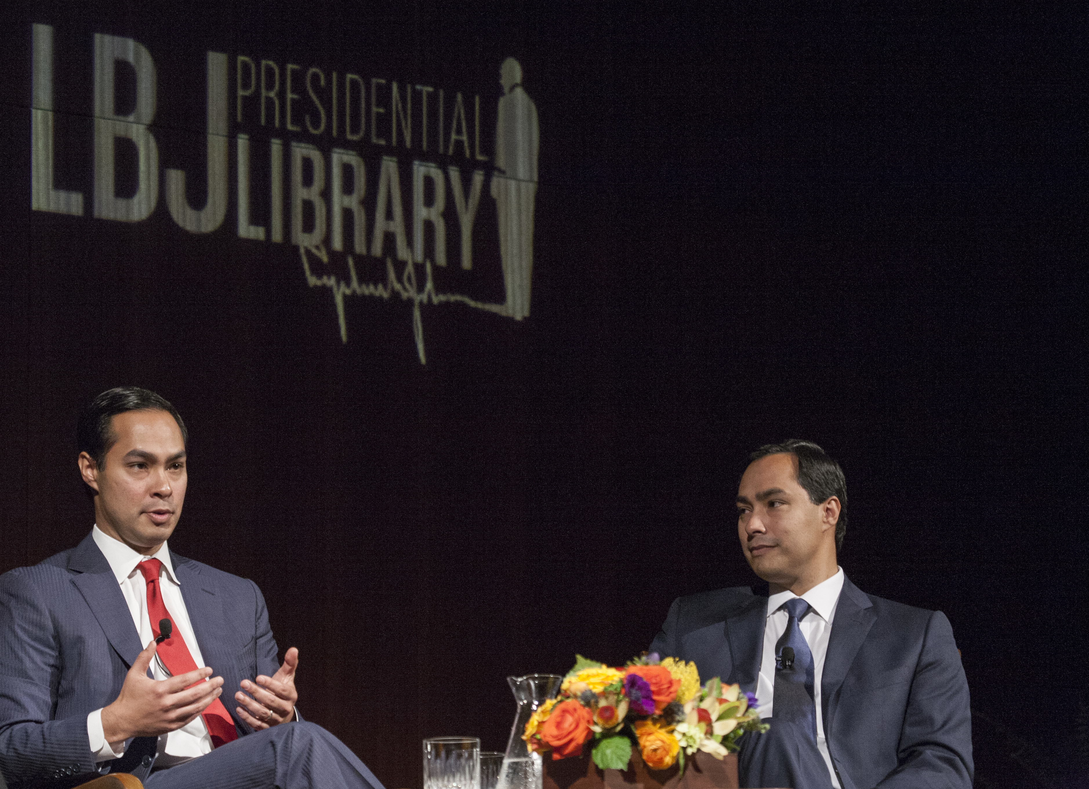 Representative Joaquin Castro and his twin brother, San Antonio Mayor Julian Castro.